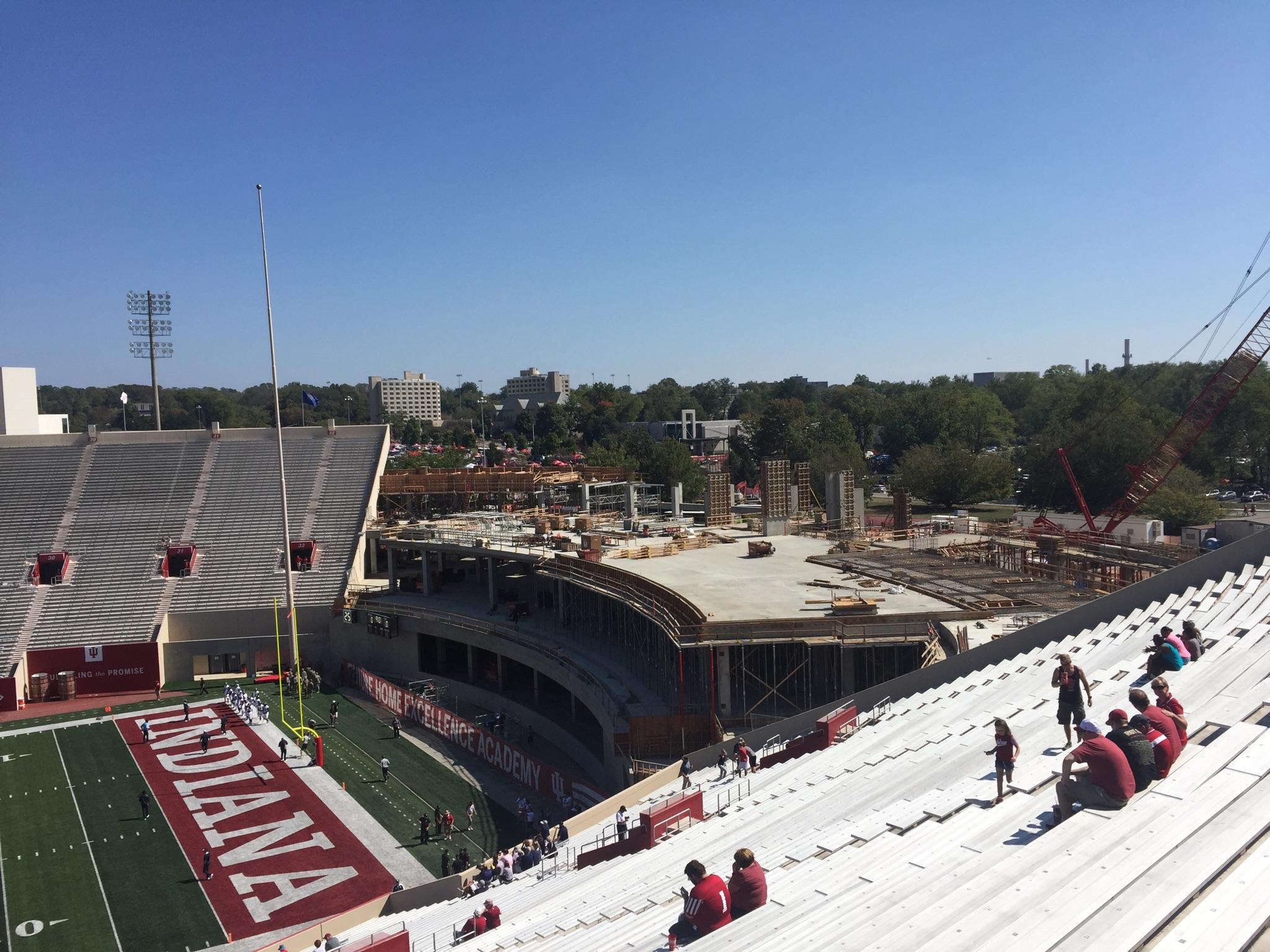 Memorial Stadium - Construction - September 23, 2017